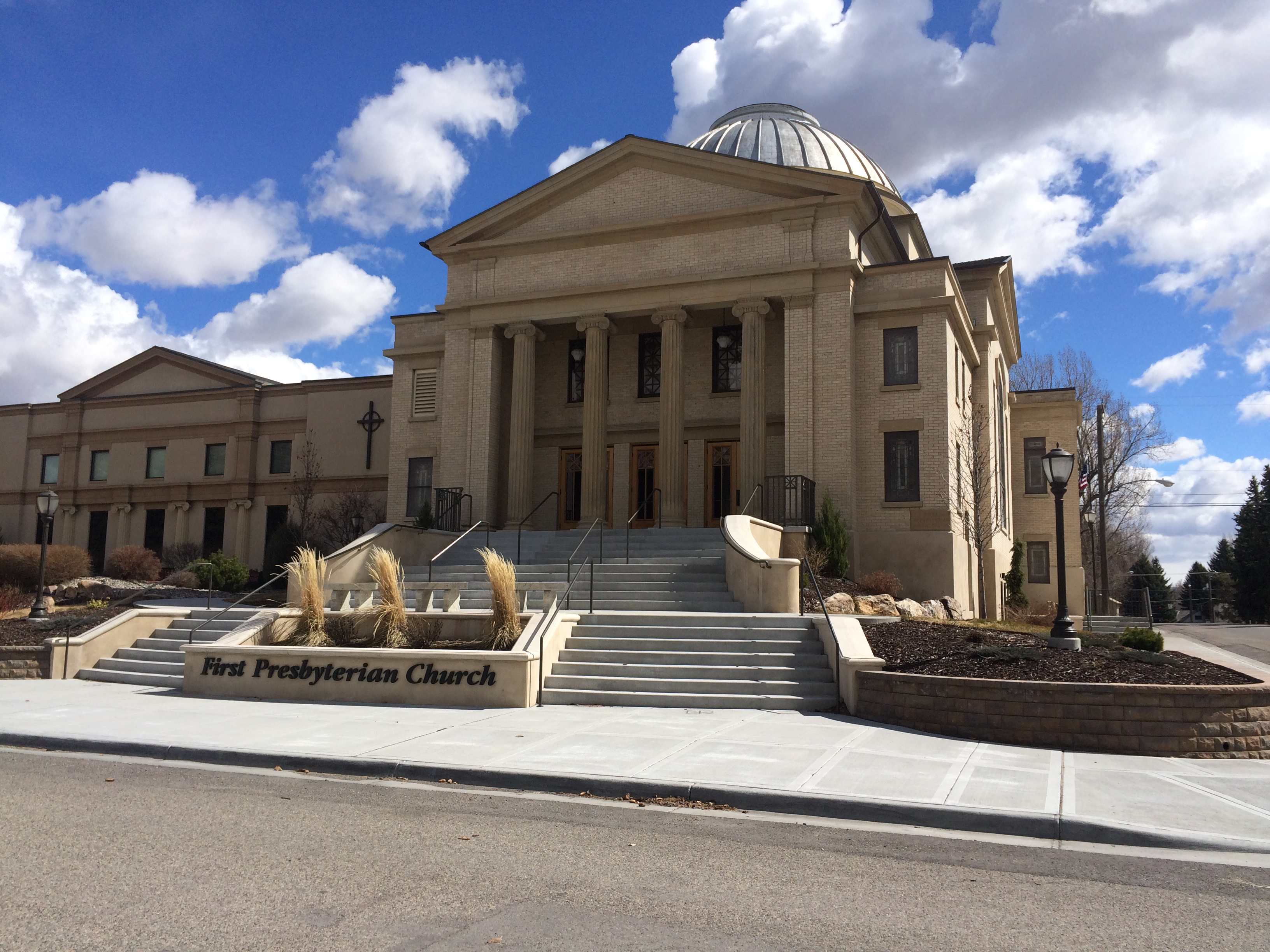 West face and main entrance of First Presbyterian Church at 325 Elm Street, Idaho Falls, Bonneville County, Idaho, USA